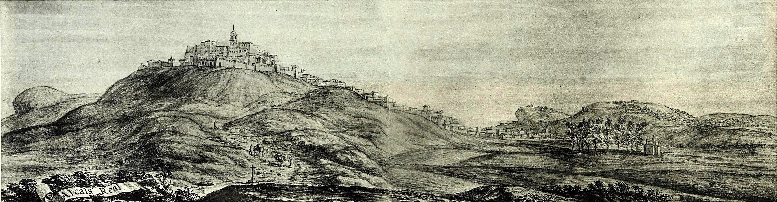 View of the city of Alcalá la Real in 1668 by the artist Pier Maria Baldi, who accompained Cosimo III dei Medici in his travel through Spain and Portugal.